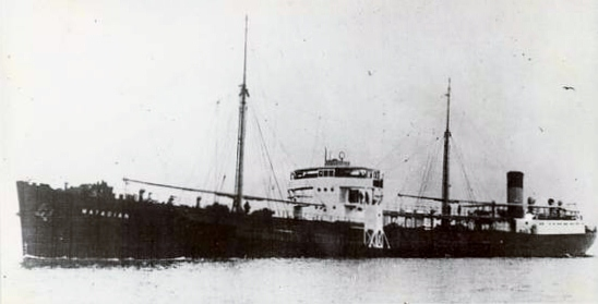 1936 Steam tanker SS Matadian, belonging to UAC